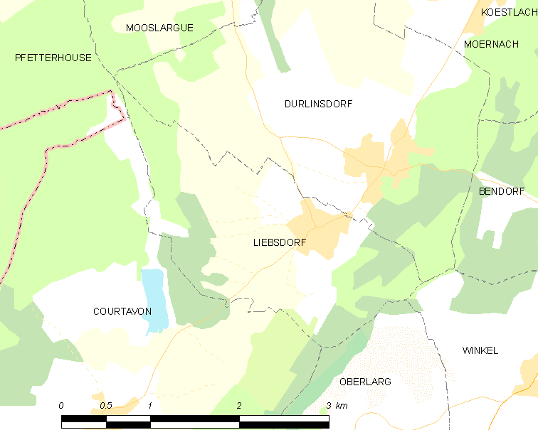 Map of French municipality